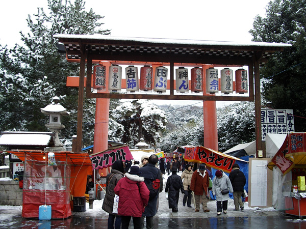 Setsubun being celebrated at the Yoshida shrine